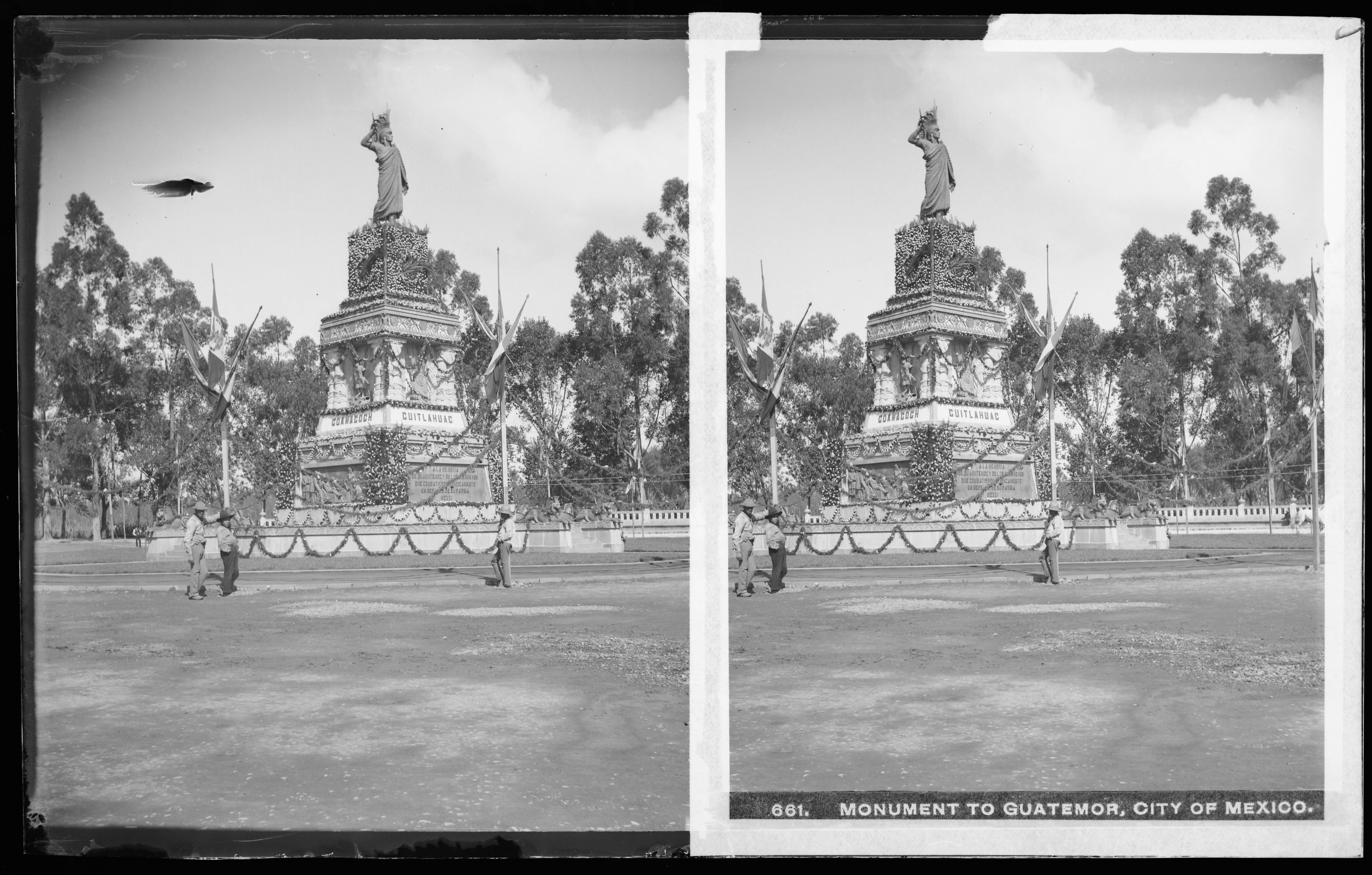 Monument to Quatemor, Mexico City, Mexico, ca.1905-1910 Stereograph of monument to Guatemor, Mexico City, Mexico, ca.1905-1910. A statue of a figure with a feathered headpiece stands atop an ivy covered stone monument (somewhat obelisk shaped). Laurels are hung around the base. The monument is in a grassy lawn with trees behind. Six flags fly on two poles in front of it. Three people are walking in front of it. Legible signs include: "Coanacoch", "Cuitlahuac", "A la memoria Quantemoc y de los [...] que combatieram [...]icamente en defen[...] de su patria, MDXXI". Call number: CHS-661 Filename: CHS-661 Coverage date: circa 1905/1910 Part of collection: California Historical Society Collection, 1860-1960 Type: images Part of subcollection: Title Insurance and Trust, and C.C. Pierce Photography Collection, 1860-1960 Repository name: USC Libraries Special Collections Format: glass plate negatives Microfiche number: 1-224- Archival file: chs_Volume89/CHS-661.tiff Geographic subject (city or populated place): Mexico City Repository address: Doheny Memorial Library, Los Angeles, CA 90089-0189 Subject (adlf): monuments Geographic subject (country): Mexico Format (aacr2): 2 photographs : glass photonegative, photoprint, b&w ; 13 x 20 cm., 26 x 21 cm. Rights: Digitally reproduced by the USC Digital Library; From the California Historical Society Collection at the University of Southern California Project: USC Accession number: 661 Repository Contributing entity: California Historical Society Date created: circa 1905/1910 Publisher (of the digital version): University of Southern California. Libraries Format (aat): stereographs; photographic prints; photographs Legacy record ID: chs-m14560; USC-1-1-1-14147 Access conditions: Send requests to address or e-mail given. Phone (213) 821-2366; fax (213) 740-2343. Subject (file heading): Mexico -- Mexico City Subject (lcsh): Monuments -- Mexico